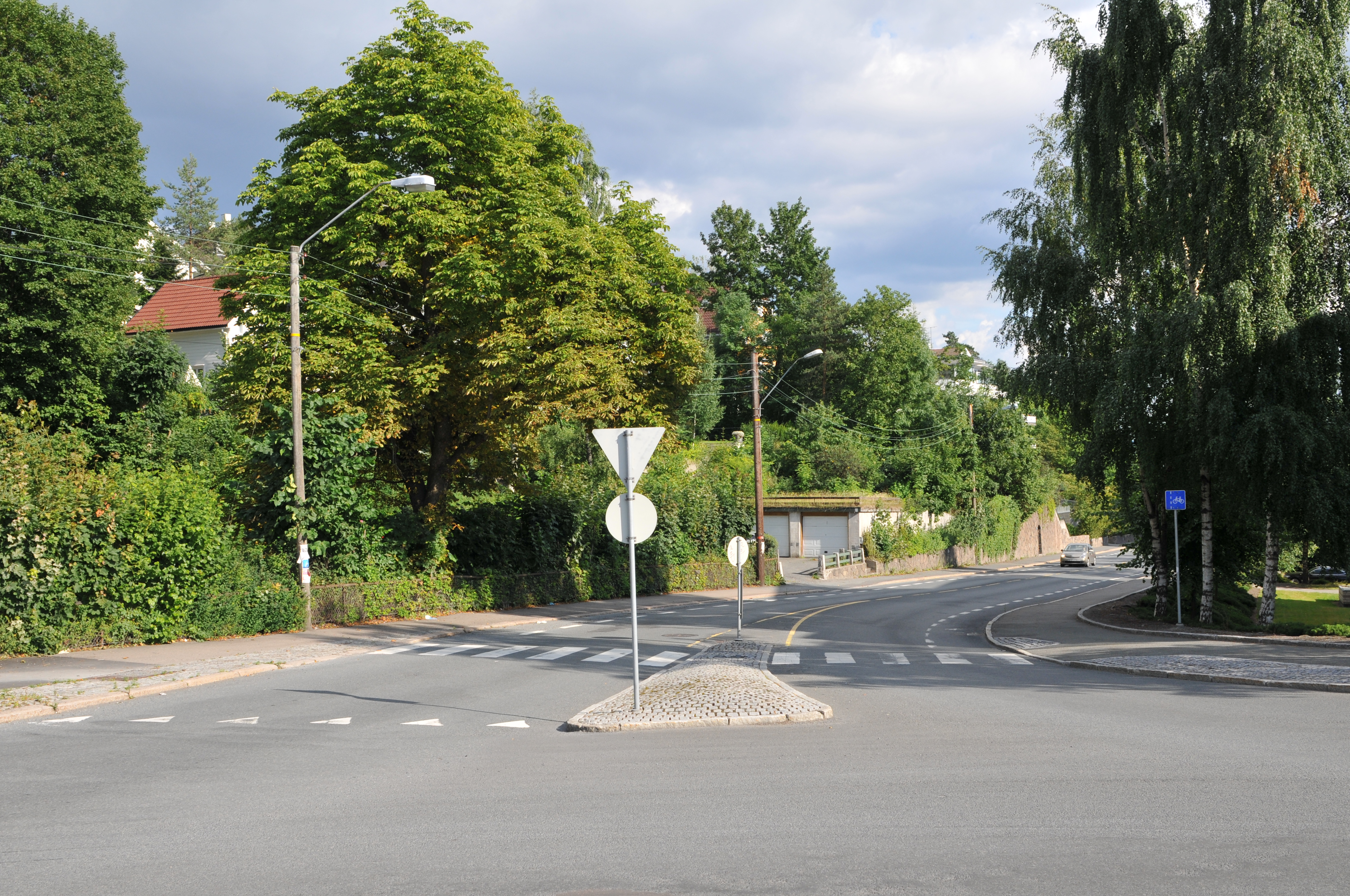 Lilleakerveien from Bestumveien towards Oslofjorden